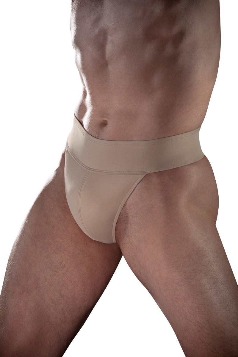 This is a photo of a dance belt used by male ballet dancers.